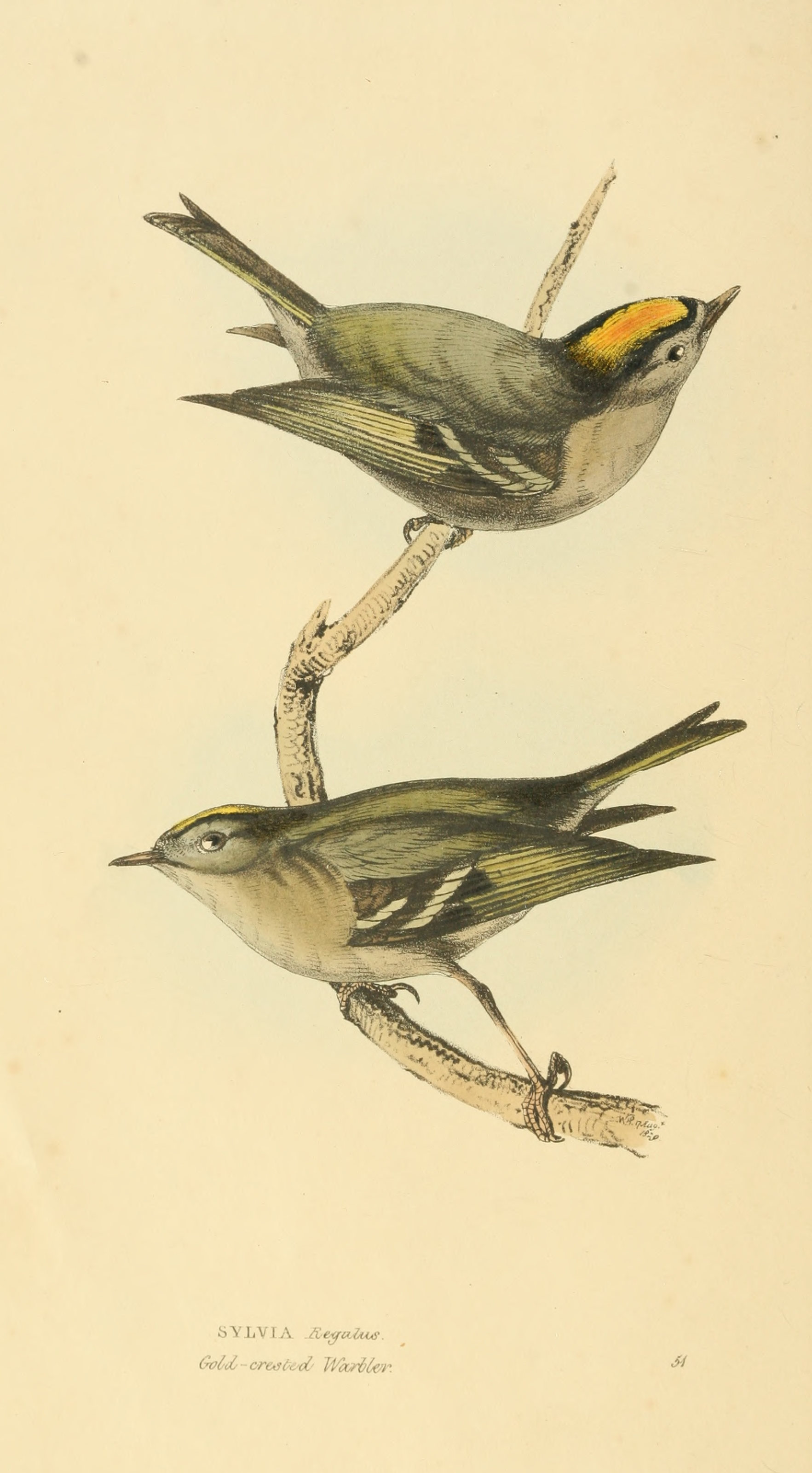 Plate from Zoological illustrations, Volume 2, 2nd series. Gold-crest or Golden-crested Warbler. Sylvia Regulus. Accepted as Regulus regulus[1]